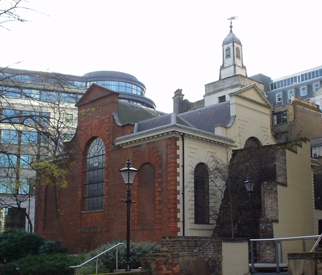 St Anne and St Agnes